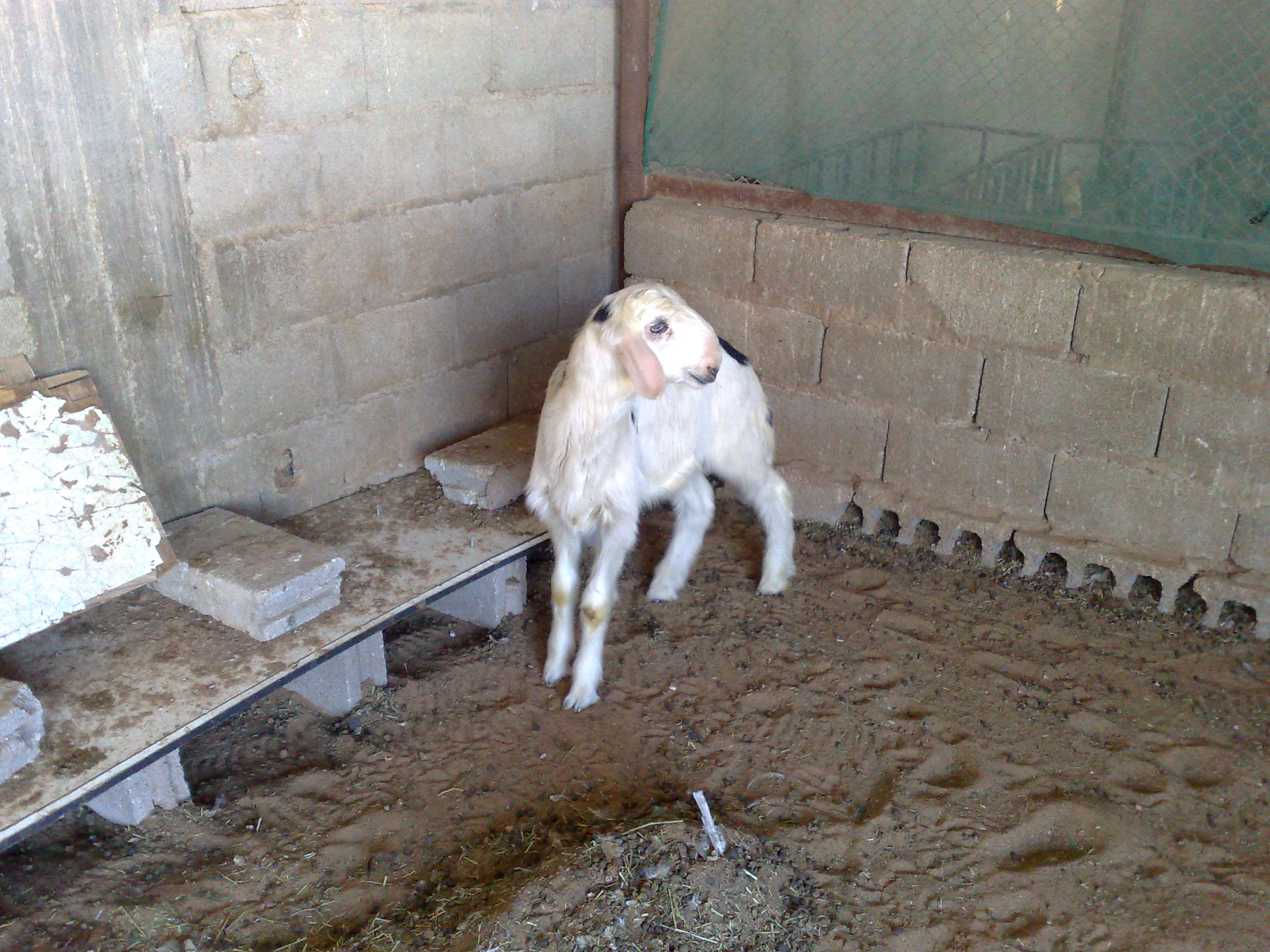 najdi sheep in Unaizah